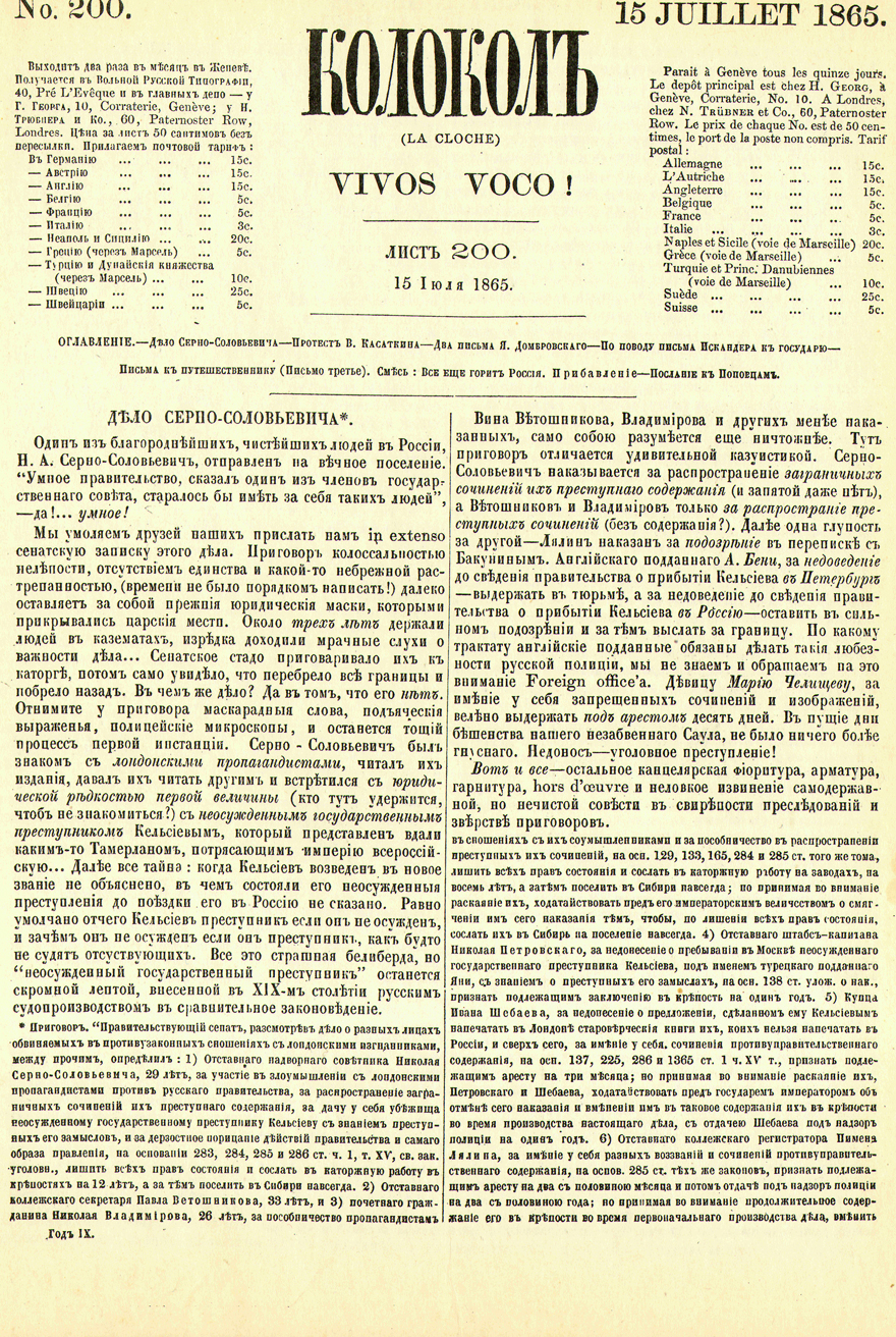 A 'Kolokol' newspaper of Alexader Herzen (about case of 32 criminal in 1865 year)